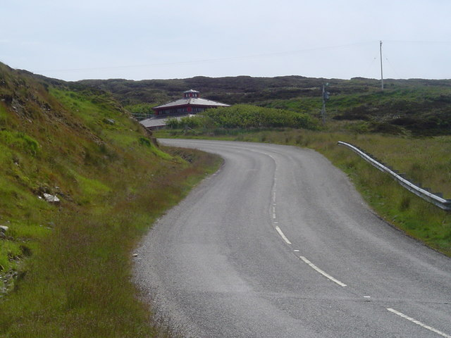 B895 and Tolsta Filter Station. This shows the main road to Tolsta climbing out of Glen Tolsta towards the village. The slightly oriental looking building nestled into the hillside is the tolsta filter station which provides high quality drinking water to the surrounding area and is fed by Loch Ionadagro NB5146.